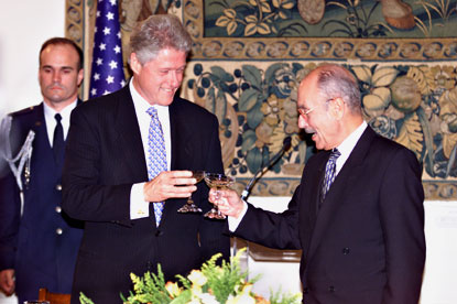 President Clinton toasts President Stephanopoulous during a state dinner at the Presidential Palace in Athens, Greece